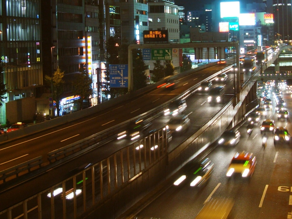 Route 3 (Shibuya Route) of Shuto-Kosoku, or Metropolitan Expressway (elevated tracks) along with Route 246, or Tamagawa-dori Avenue, near Shibuya district, Tokyo